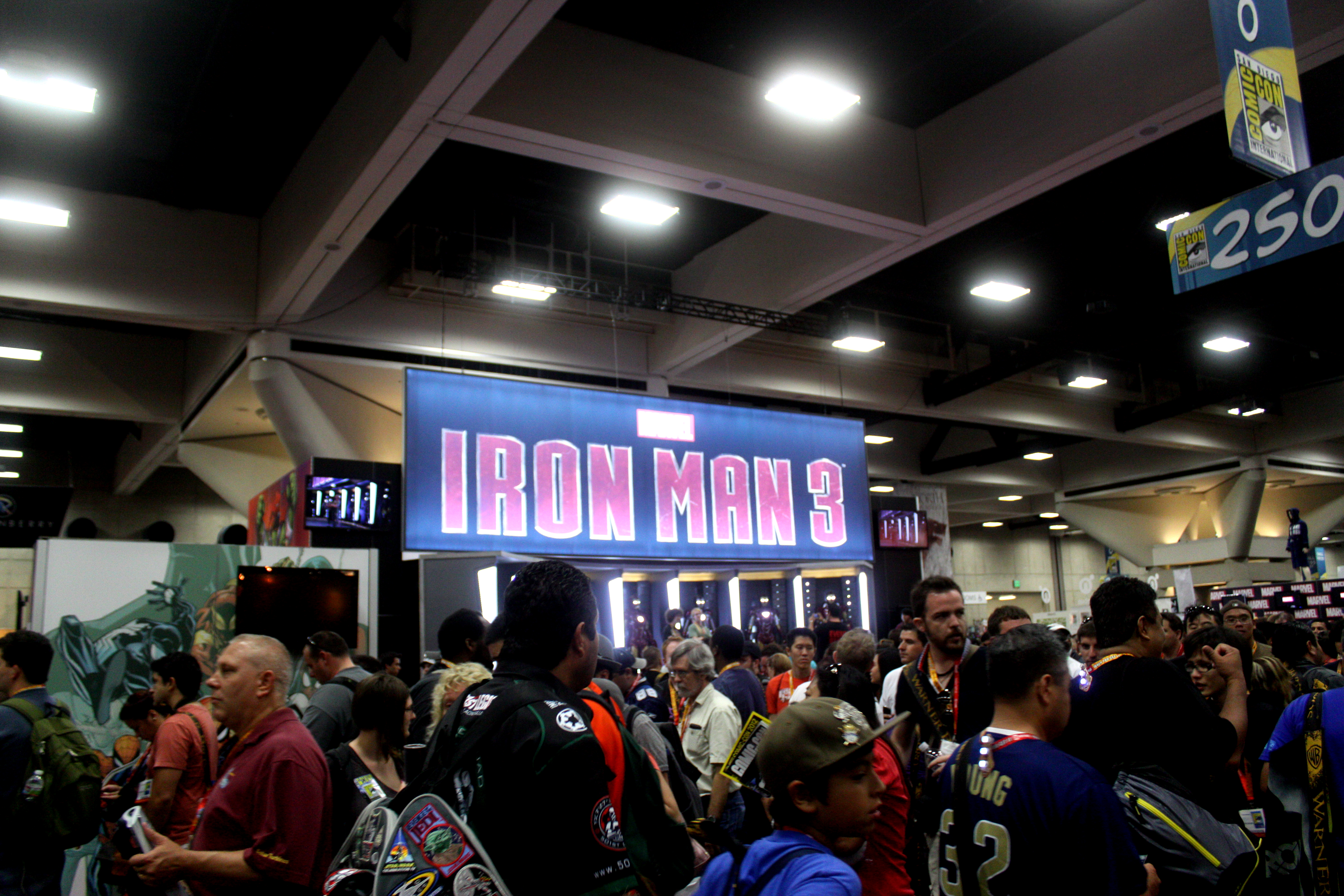 The Iron Man 3 booth on the exhibit floor at the 2012 Comic-Con in San Diego.